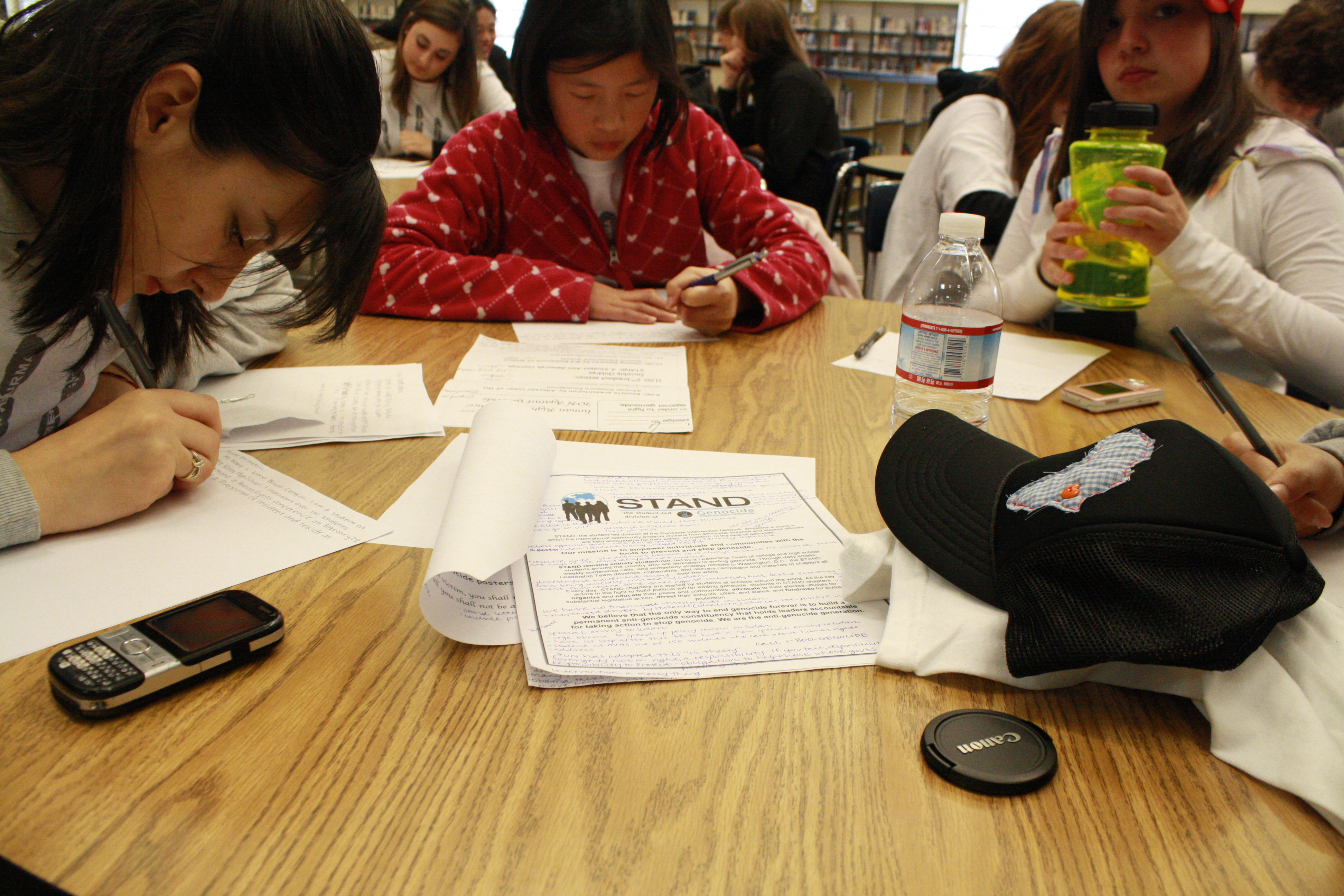 At the Second Annual Bay Area Human Rights Conference on February 28, 2009, students from the Amador Valley Human Rights Club write letters to their senators to urge them to support taking action to end the Darfur genocide.